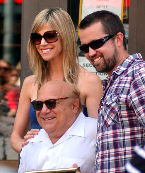 Kaitlin Olson, Danny DeVito, and Rob McElhenney at a ceremony for DeVito to receive a star on the Hollywood Walk of Fame.